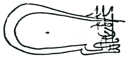 Tughra (i.e., seal or signature) of Murad II, Sultan of the Ottoman Empire (1421-1451). An explanation of the different elements composing the tughra can be found here.